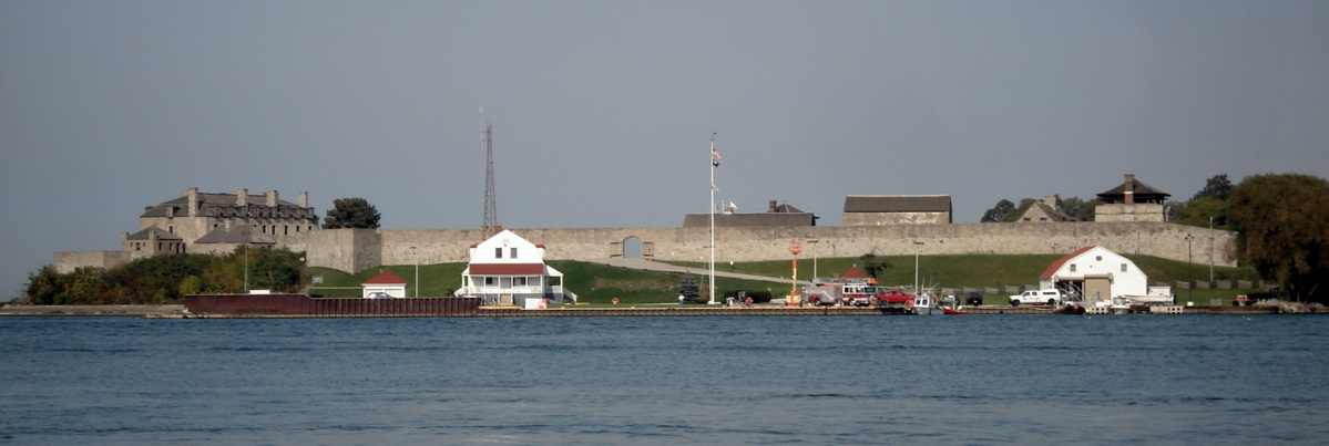 Fort Niagara in New York State, seen from Niagara-on-the-Lake on the Canadian side of Niagara River. Photo taken on October 9, 2006.